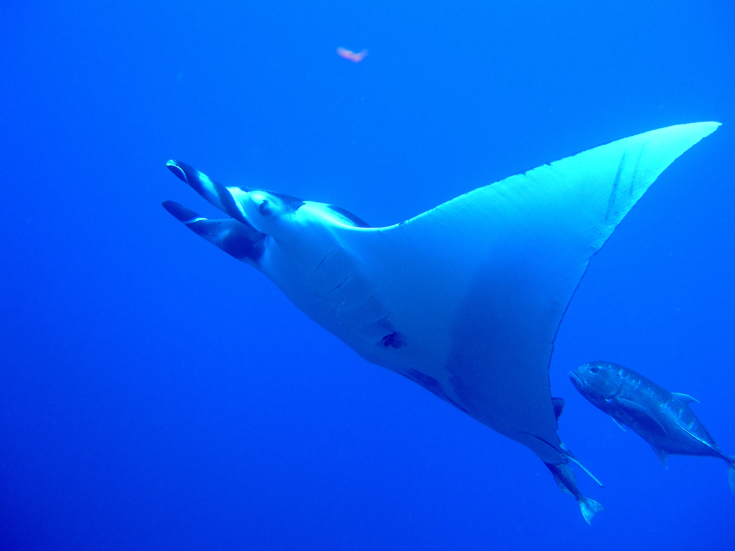 Elphinstone Reef Manta Ray